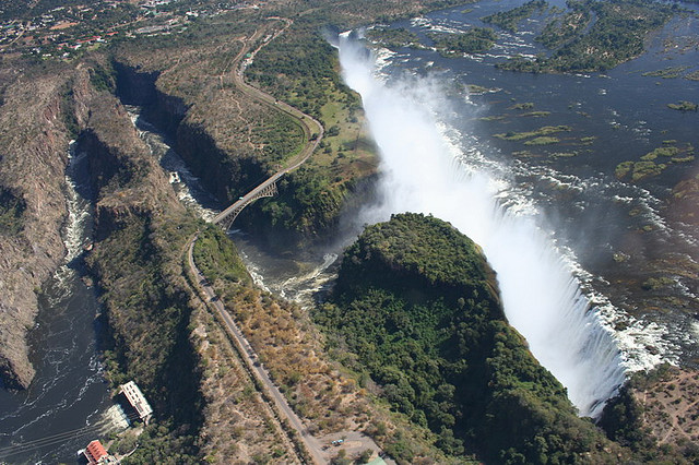 Aerial view of the Victoria Falls (known in Tonga as "Mosi-oa-Tunya" - "the smoke that thnders", the Victoria Falls bridge and the three of the six gorges. The falls have a width of 1708 m and a drop of 108 m while the main arch of the bridge is 165.5 m in length. The northern bank of the Zambezi (foreground) is in Zambia while the southern bank is in Zimbabwe.